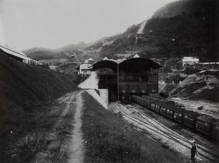 Railway yard of the Ombilin coal mines